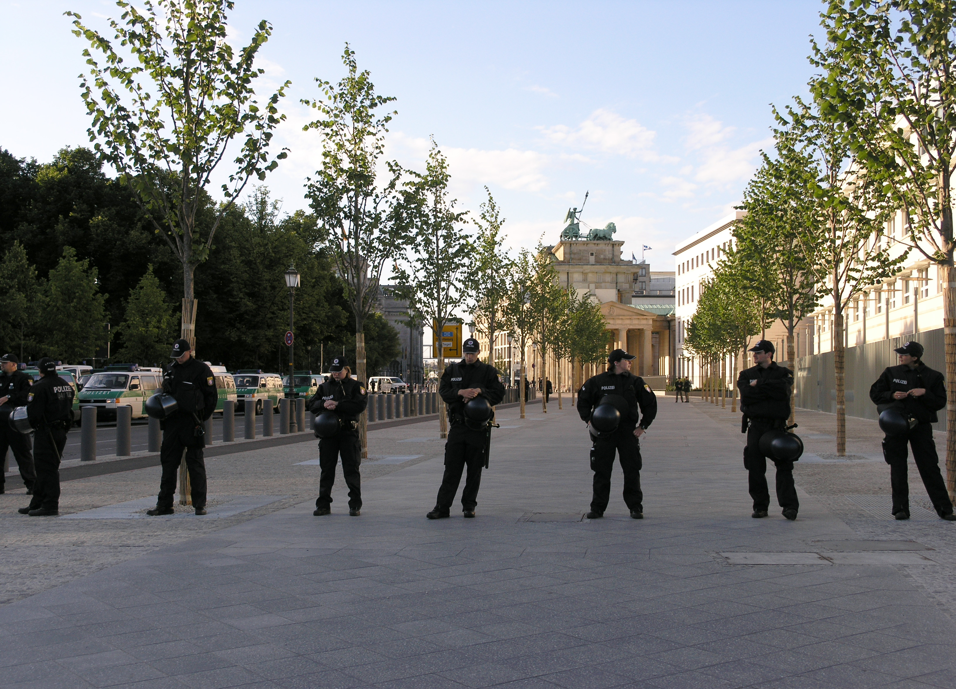 Police of Hesse near the Brandenburger Tor during a public vow of the Bundeswehr.